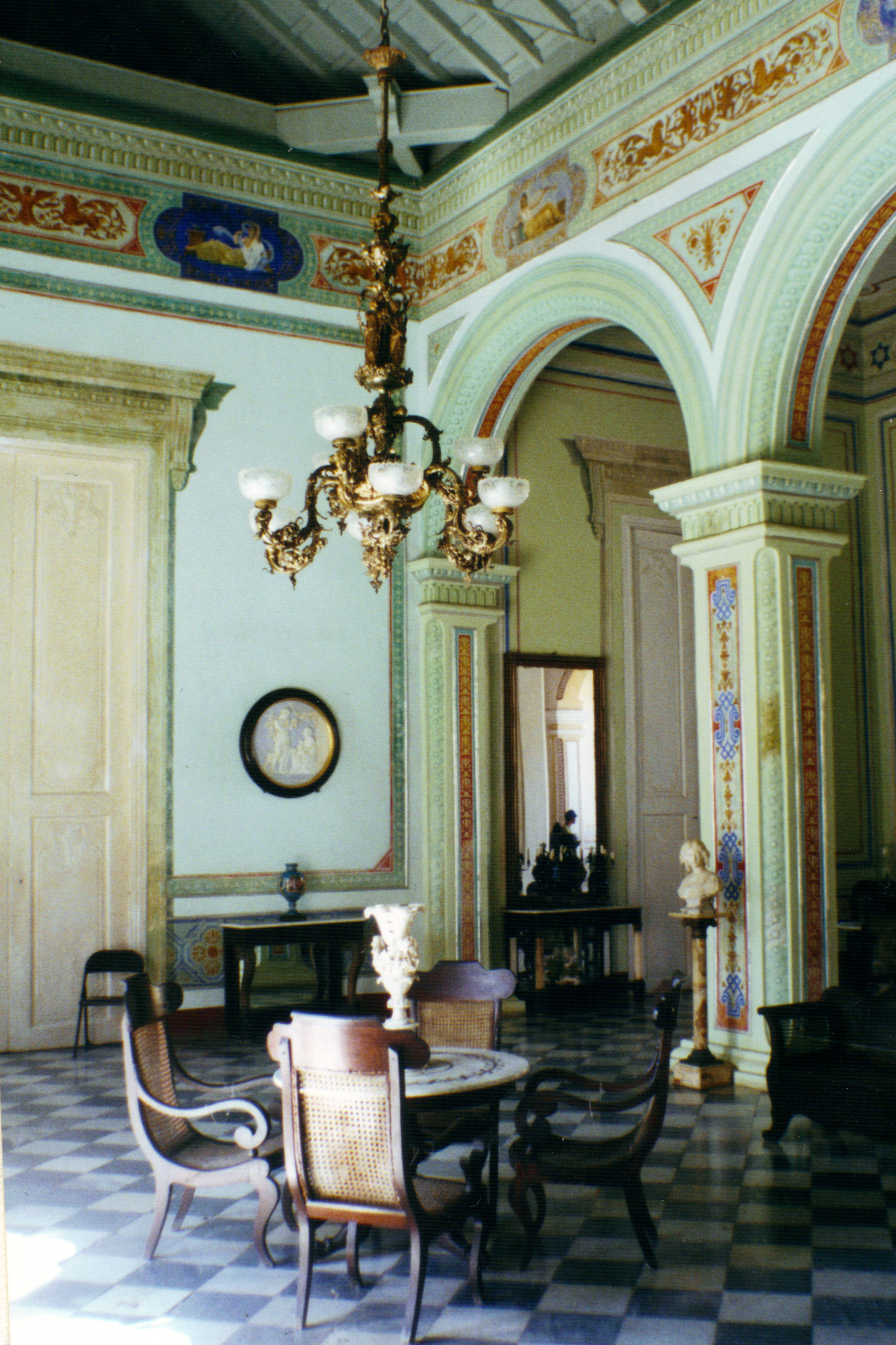 Palacio Brunet, Museo Romantico, Trinidad, Cuba , October 2002. Scan out of my photo album